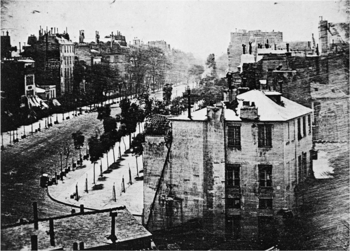 Photograph taken at midday on same day as File:Boulevard du Temple by Daguerre.jpg